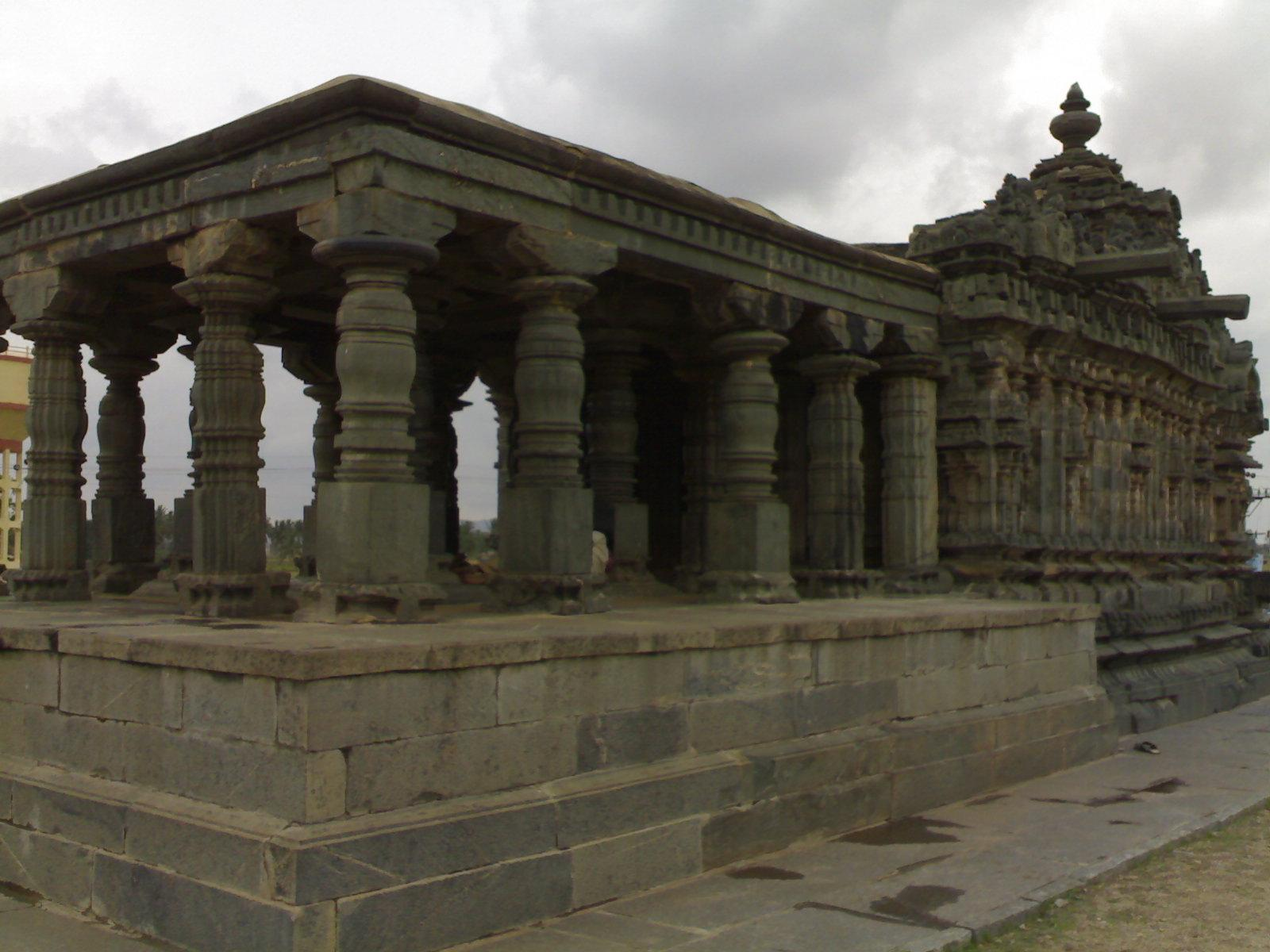 Temple at Lakkundi, Near Gadag. Source and author : Manjunath Doddamani, gajendragad / Hubli, Karnataka(North), India